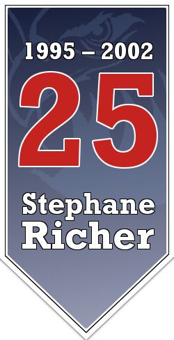 Banner in honour of Stéphane Richer (No. 25 of the Adler Mannheim) at the SAP-Arena, uses the GFDL picture Image:Mannheim-Adler-Logo.jpg